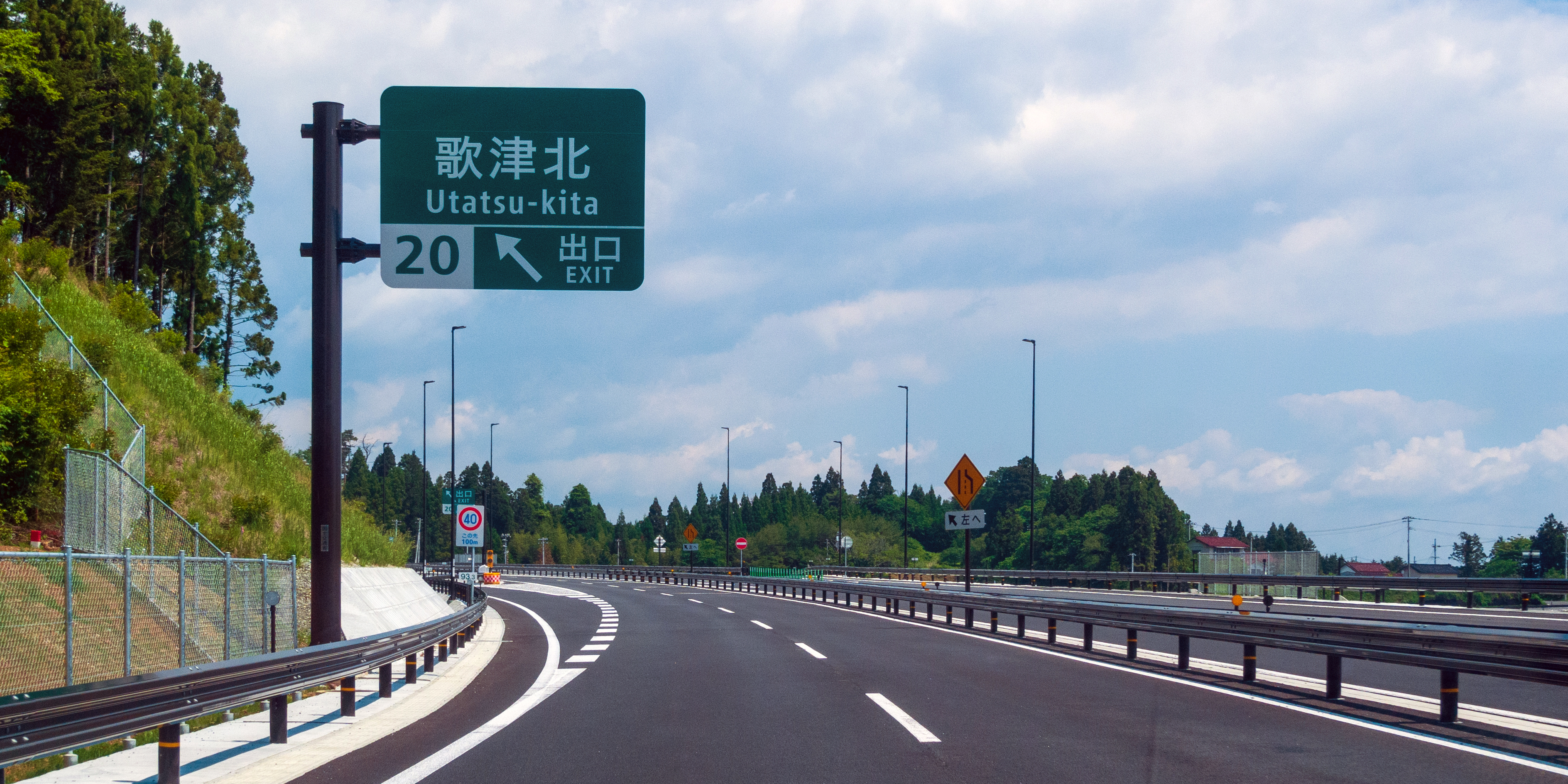 Utatsu-kita Interchange on the Sanriku Expressway northbound line in Minamisanriku Town, Miyagi Prefecture, Japan